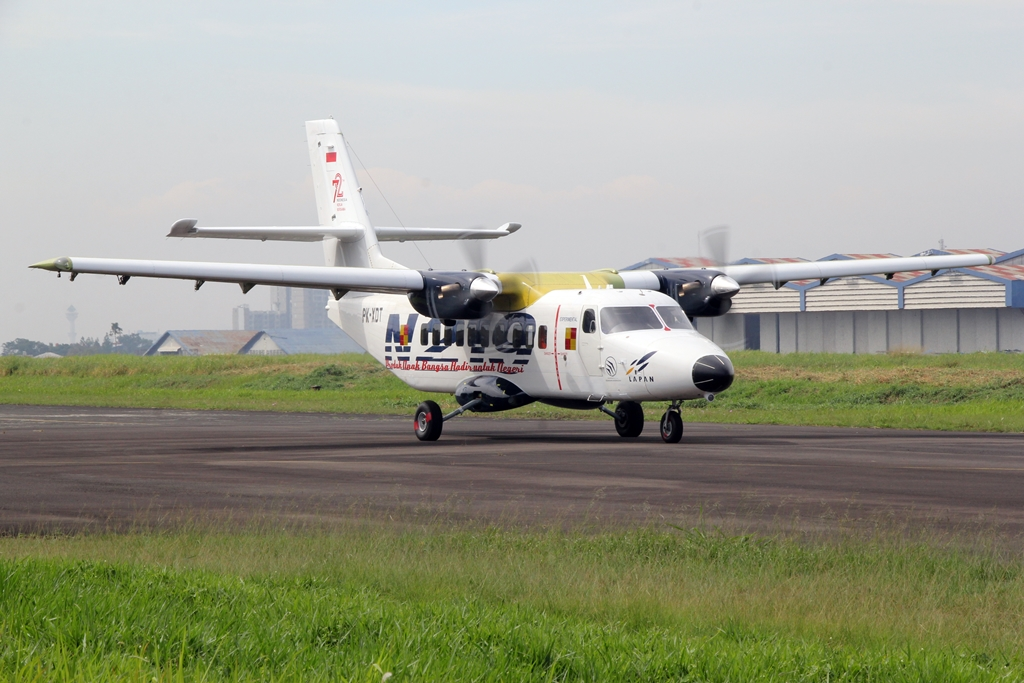 N219 aircraft landing after its test flight